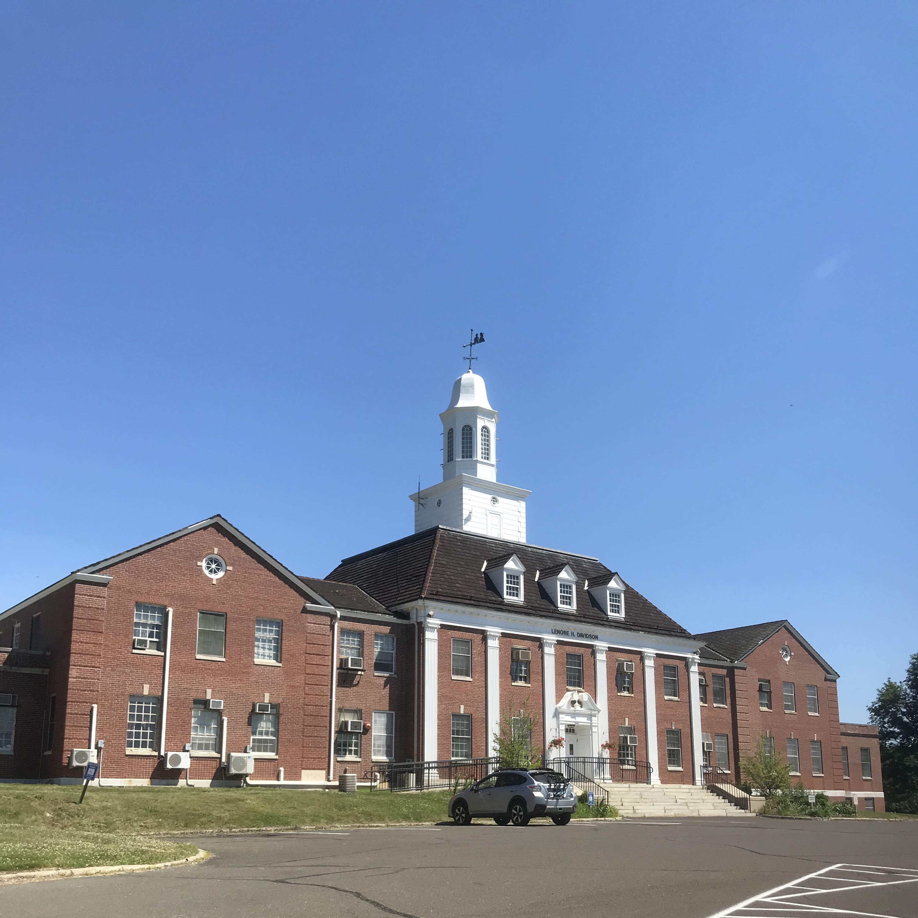 The administration building at the Southbury Training School named after Lenore H. Davidson. The building houses the administrative offices of the Training School as well as a location of the Connecticut State Employees Credit Union.